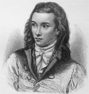 Portrait of Novalis (1772-1801)